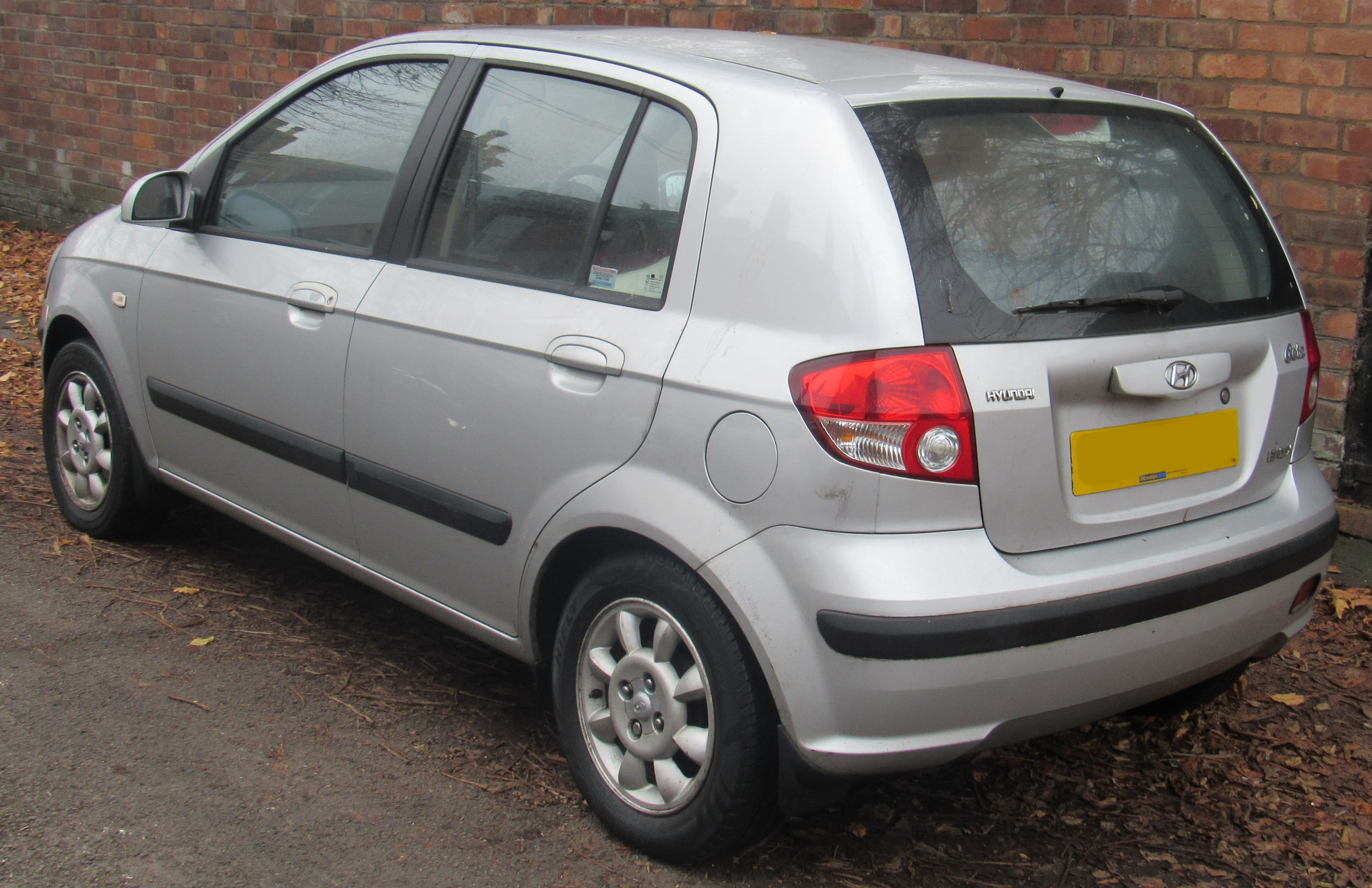 2005 Hyundai Getz CDX 1.3 Rear Taken in Leamington Spa